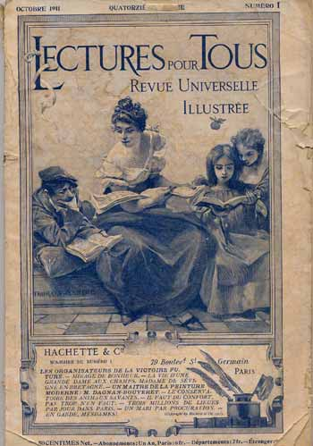 Cover of French magazine "Lectures pour tous" by French engraver Léopold Flameng.